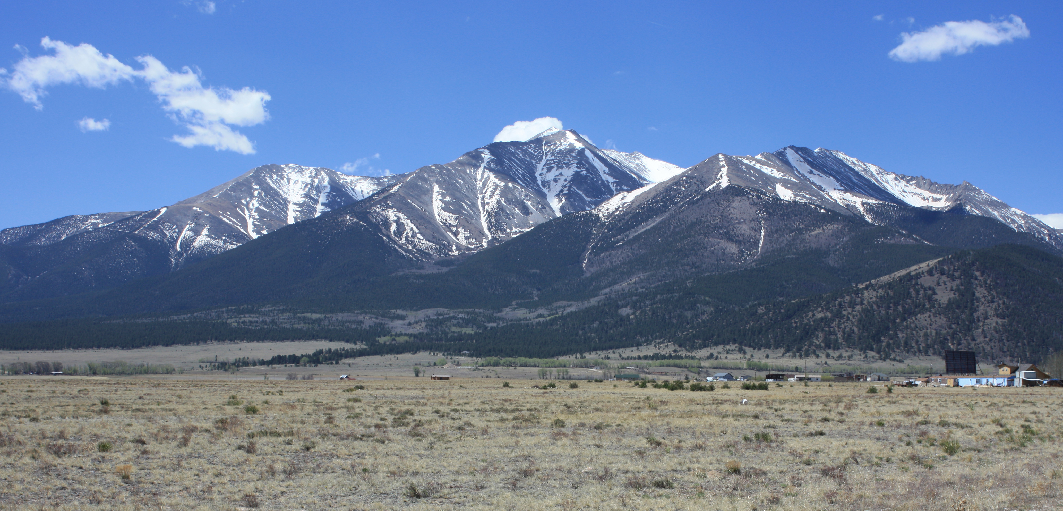 Taken from along the Cottonwood Pass road, a few miles west of Buena Vista. IMG_2263